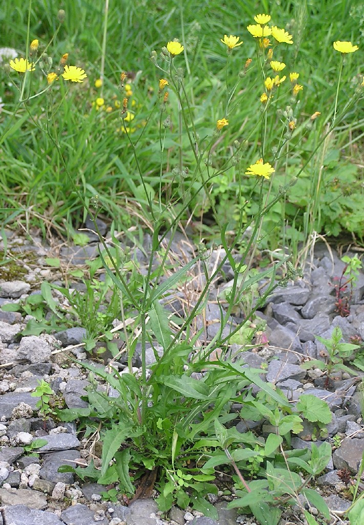 Crepis capillaris in Bonn.